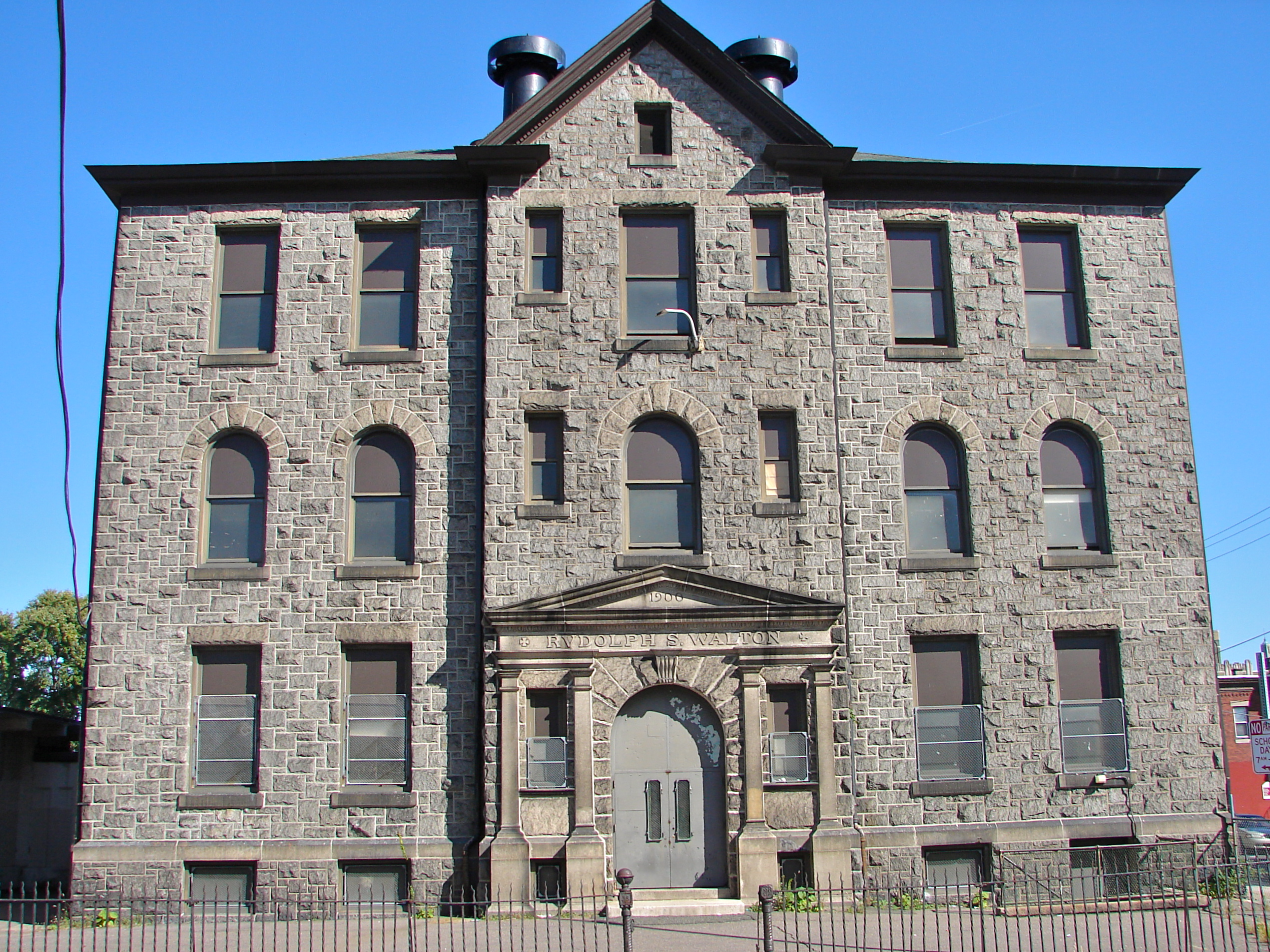 Rudolph Walton School on the NRHP since December 4, 1986. At 2601–2631 North 28th St. in the Strawberry Mansion neighborhood of North Philly. Some wonderful folks who live across the street from the old entrance gave me the following info: the school was 1st closed about 5 years ago, but then reopened to accept bussed-in students from West Philly. It was then closed 3 years ago, and has suffered some internal damage since. They would really like the school district to do something with this building, and if not the school district then have them auction it off to somebody who would do something with it. Also, the original part was built in 1900, and a large addition not long after. The addition has white stone lintels (versus gray in the original) but is otherwise nearly identical in style.